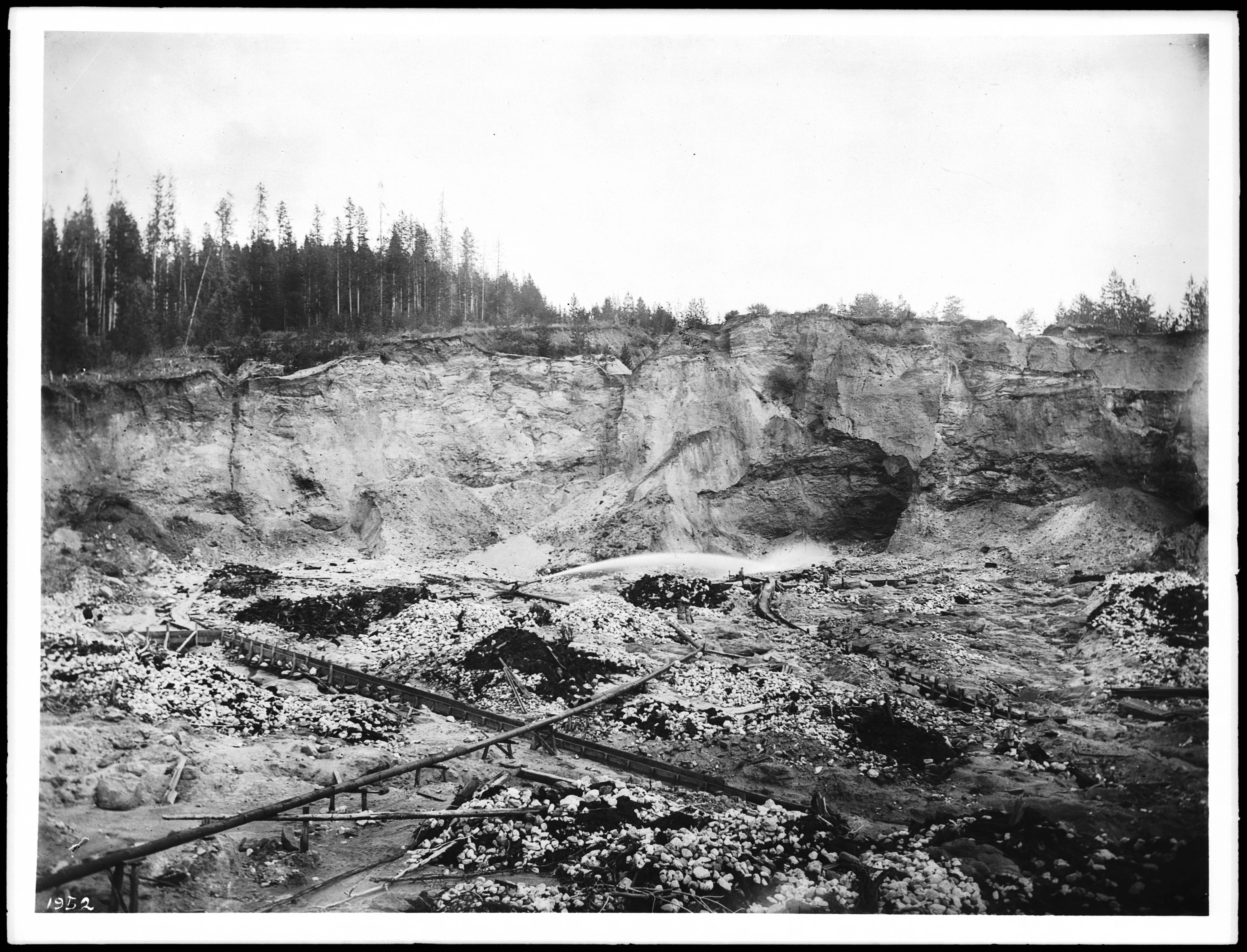 Hydraulic mining in an open pit, California, ca.1880-1900 Photograph of a hydraulic mining operation in an open pit, California, ca.1880-1900. Several water pipelines and wooden chutes crisscross the bottom of the pit. Piles of rocks and debris litter the floor of the open pit. One worker is visible in the pit near a spout gushing water. The spot is aimed at the base of a large rock wall. A stand of trees is visible on the rim of the pit above at left. Call number: CHS-1952 Filename: CHS-1952 Coverage date: circa 1880/1900 Part of collection: California Historical Society Collection, 1860-1960 Format: glass plate negatives Type: images Part of subcollection: Title Insurance and Trust, and C.C. Pierce Photography Collection, 1860-1960 Repository name: USC Libraries Special Collections Accession number: 1952 Microfiche number: 1-111-31 Archival file: chs_Volume37/CHS-1952.tiff Repository address: Doheny Memorial Library, Los Angeles, CA 90089-0189 Subject (adlf): mine sites Geographic subject (country): USA Format (aacr2): 2 photographs : glass photonegative, photoprint, b&w ; 17 x 22 cm. Rights: Digitally reproduced by the USC Digital Library; From the California Historical Society Collection at the University of Southern California Project: USC Repository Contributing entity: California Historical Society Date created: circa 1880/1900 Publisher (of the digital version): University of Southern California. Libraries Format (aat): photographic prints; photographs Geographic subject (state): California Legacy record ID: chs-m2768; USC-1-1-1-2836 Access conditions: Send requests to address or e-mail given. Phone (213) 821-2366; fax (213) 740-2343. Subject (file heading): Mining -- Los Angeles Subject (lcsh): Mines and mineral resources